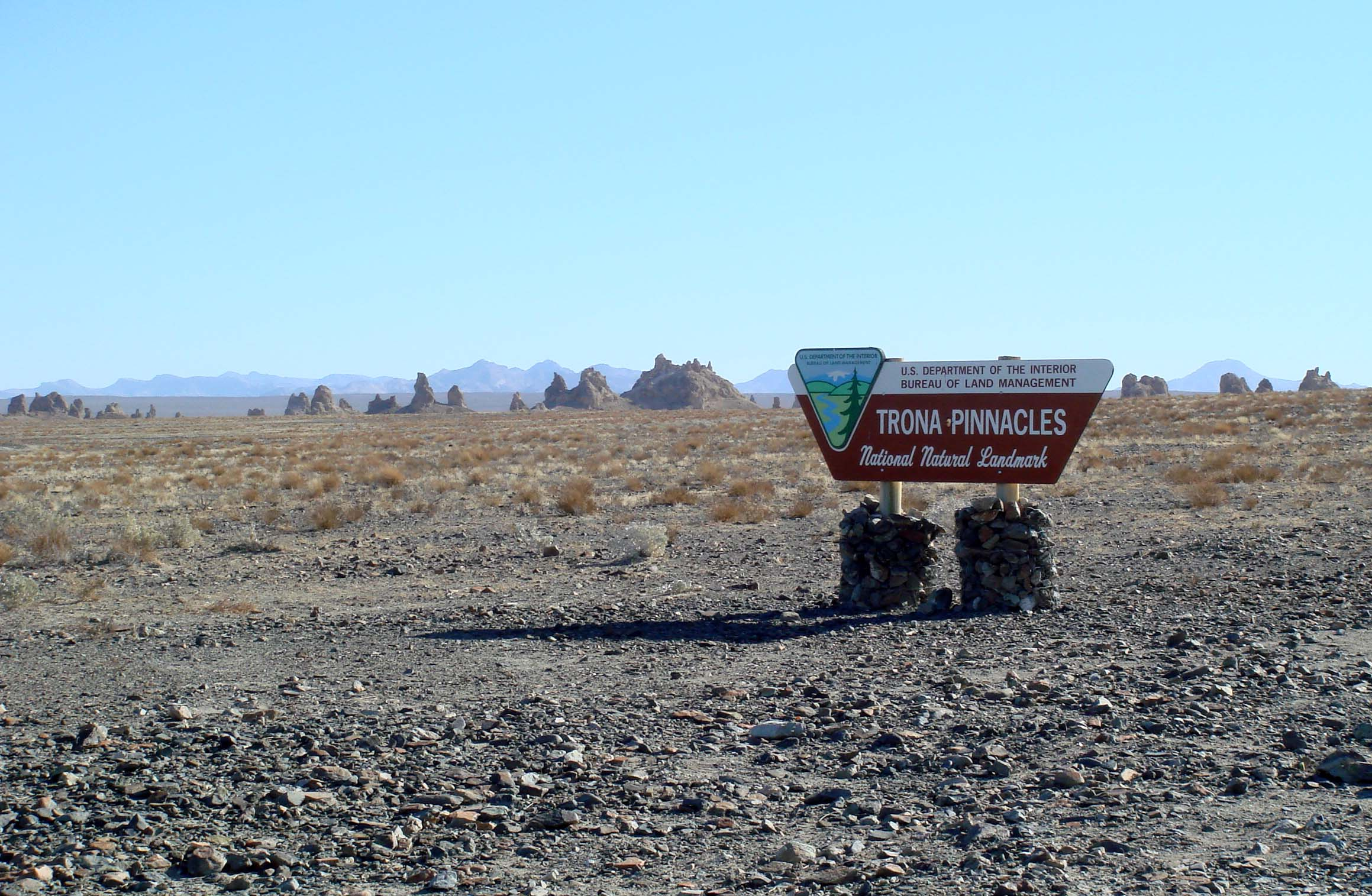 Trona Pinnacles — with NPS sign in the Mojave Desert of California.